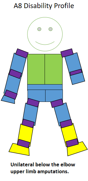 Amputee sport related classification illustration using the ISOD/IWAS classification system.